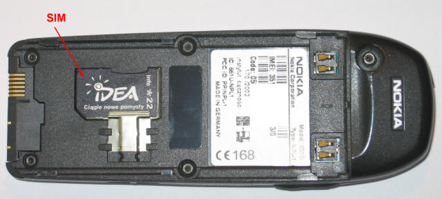 SIM - card inside mobile phone installed